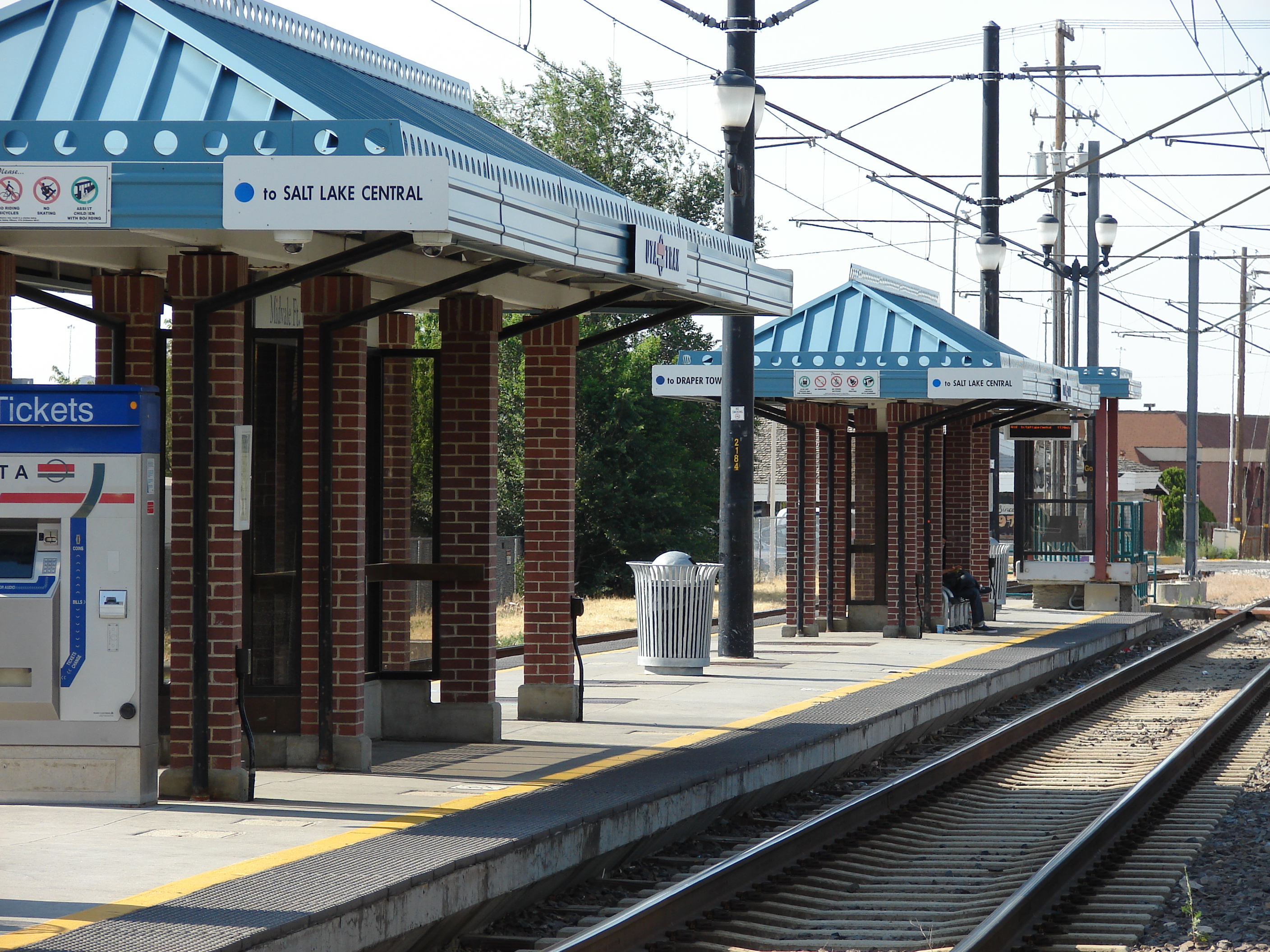 The passenger platform at the Midvale Fort Union Station, viewed from the southeast